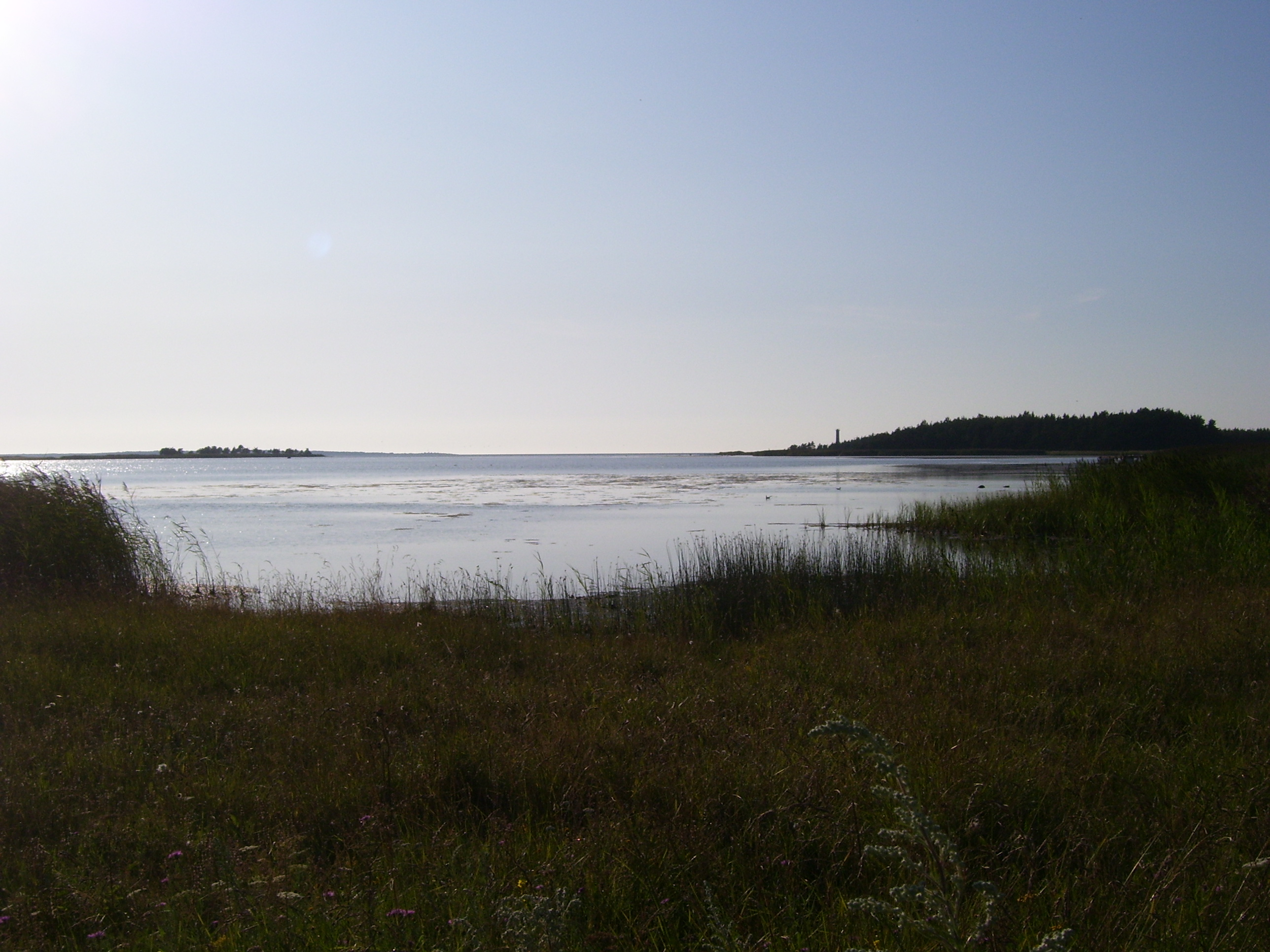 The gulf of Abaja, Estonia